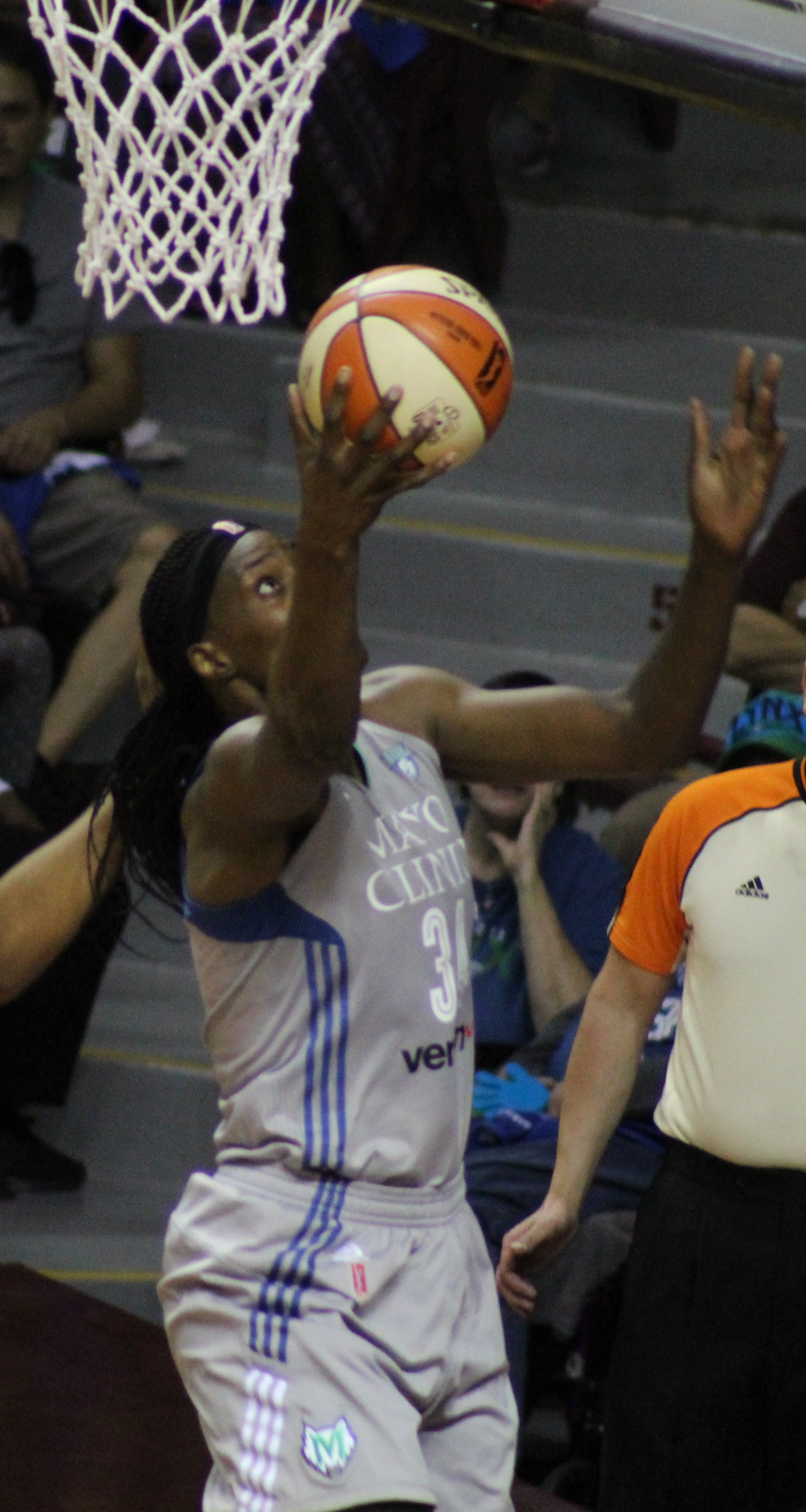 Sylvia Fowles of the Minnesota Lynx